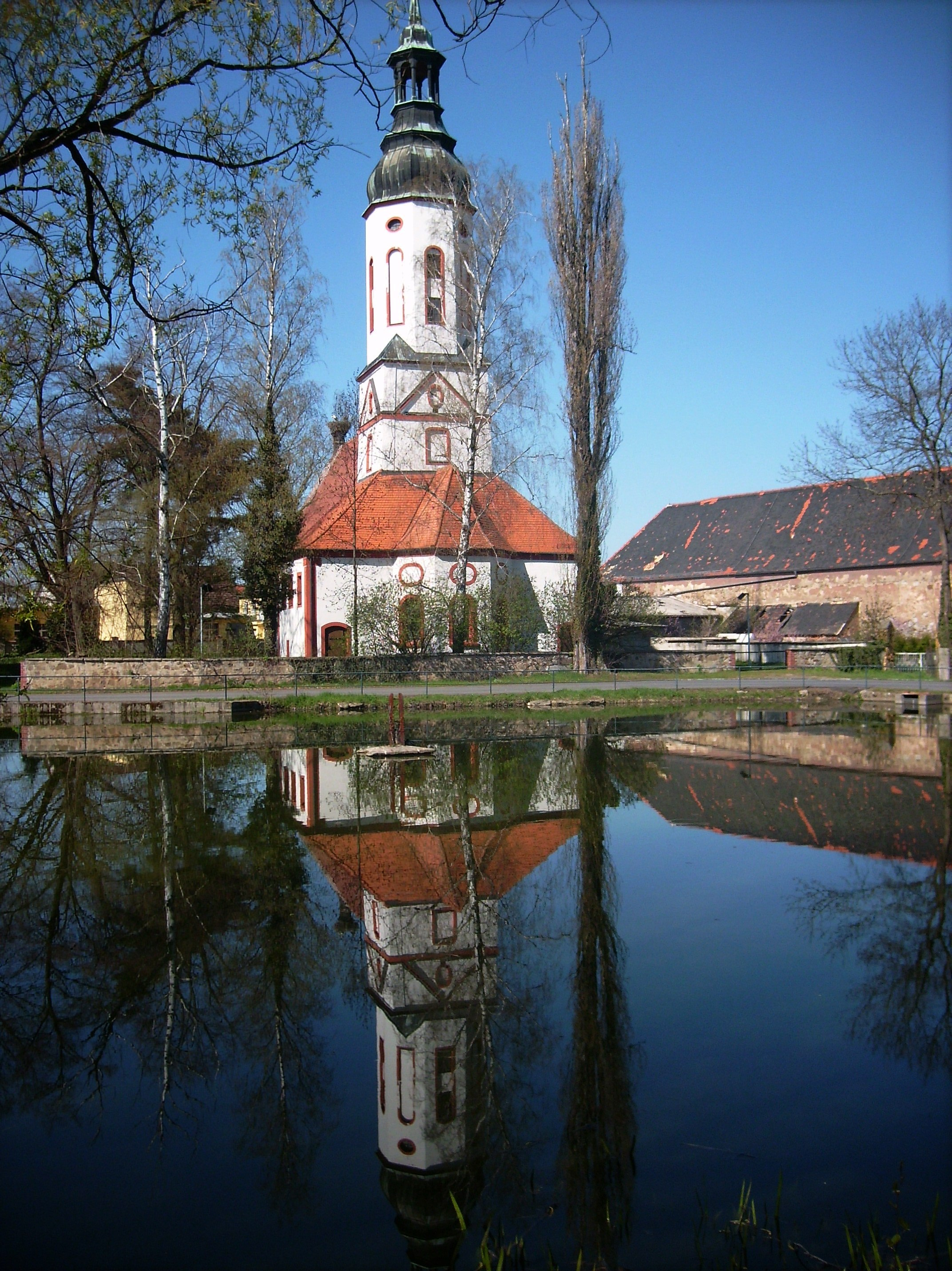 Church and pond in Otterwisch (Leipzig district, Saxony)